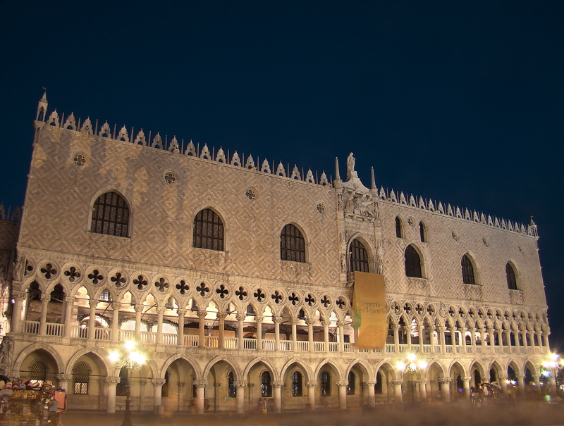 Doge's Palace, Venice, Veneto, Italy. Façade looking towards the Piazzetta San Marco.